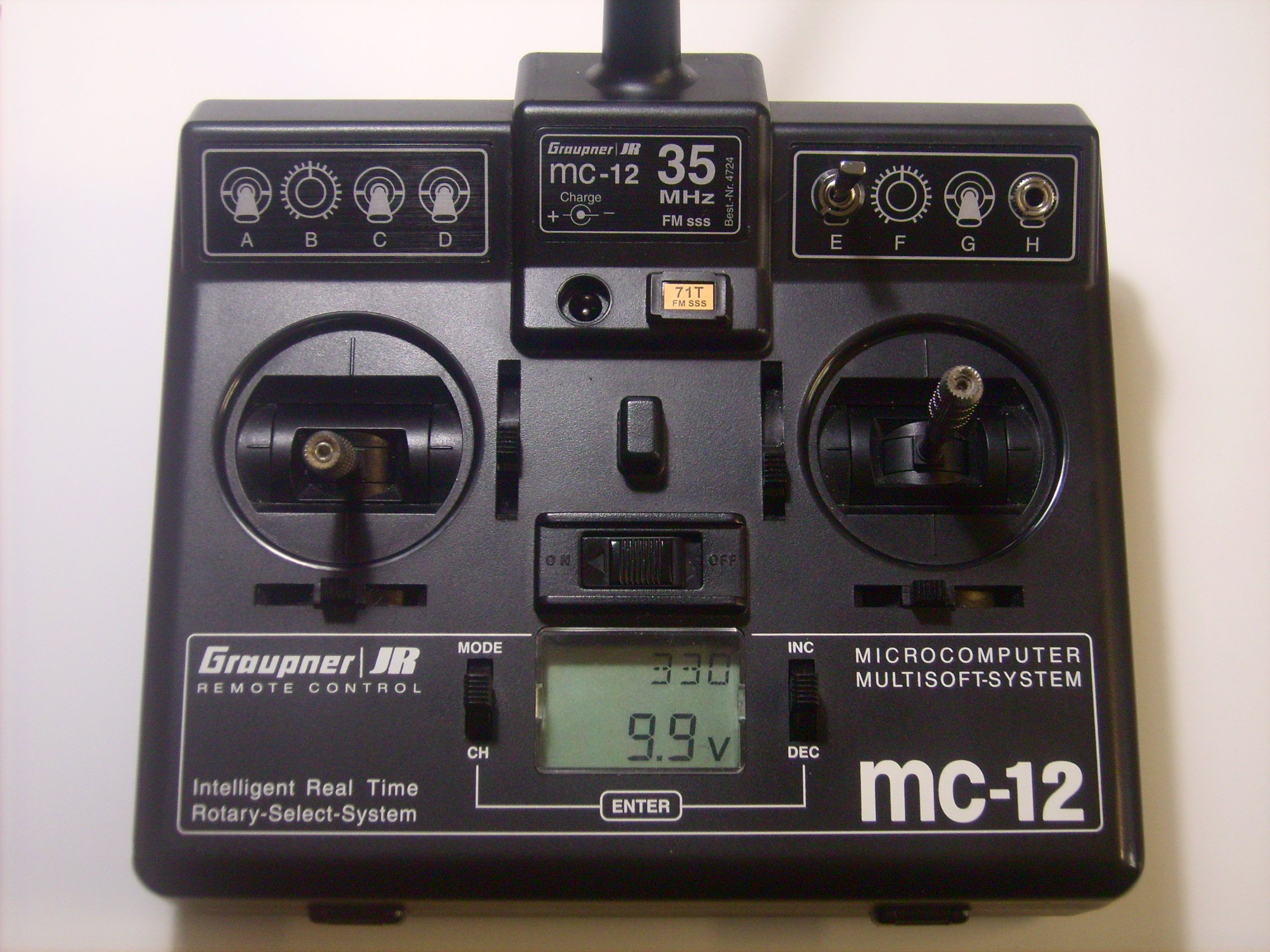 Transmitter of a Graupner MC-12 programmable remote control